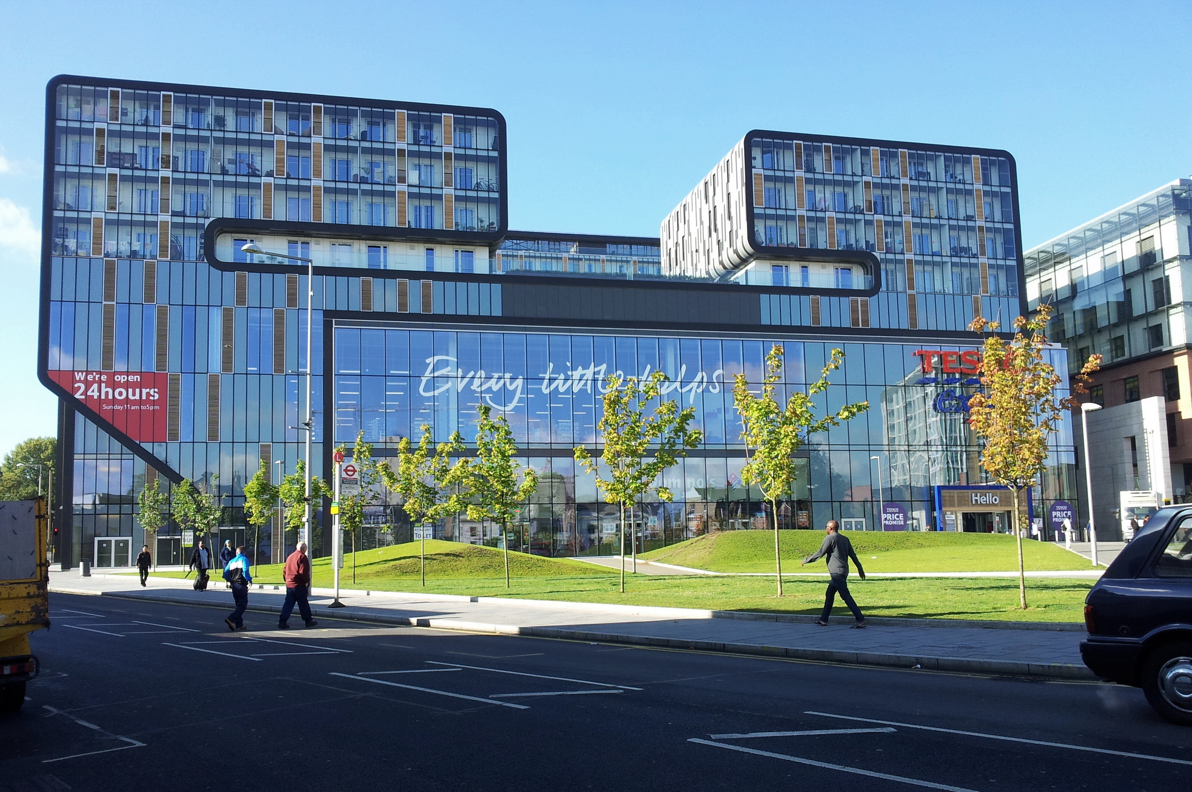 View of the Love Lane development (Tesco, apartment) on Woolwich New Road and General Gordon Square in the centre of Woolwich, South East London. To the right: Love Lane.